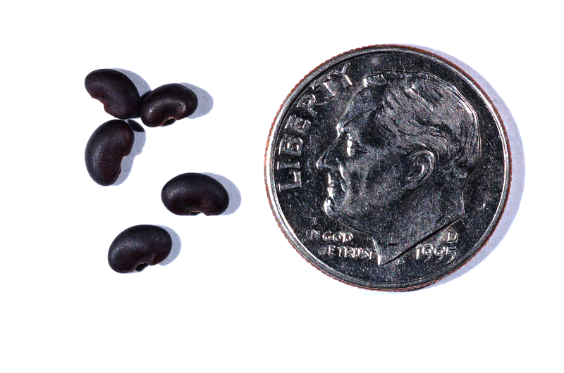 Seeds of Medicago intertexta next to a U.S. dime for scale.